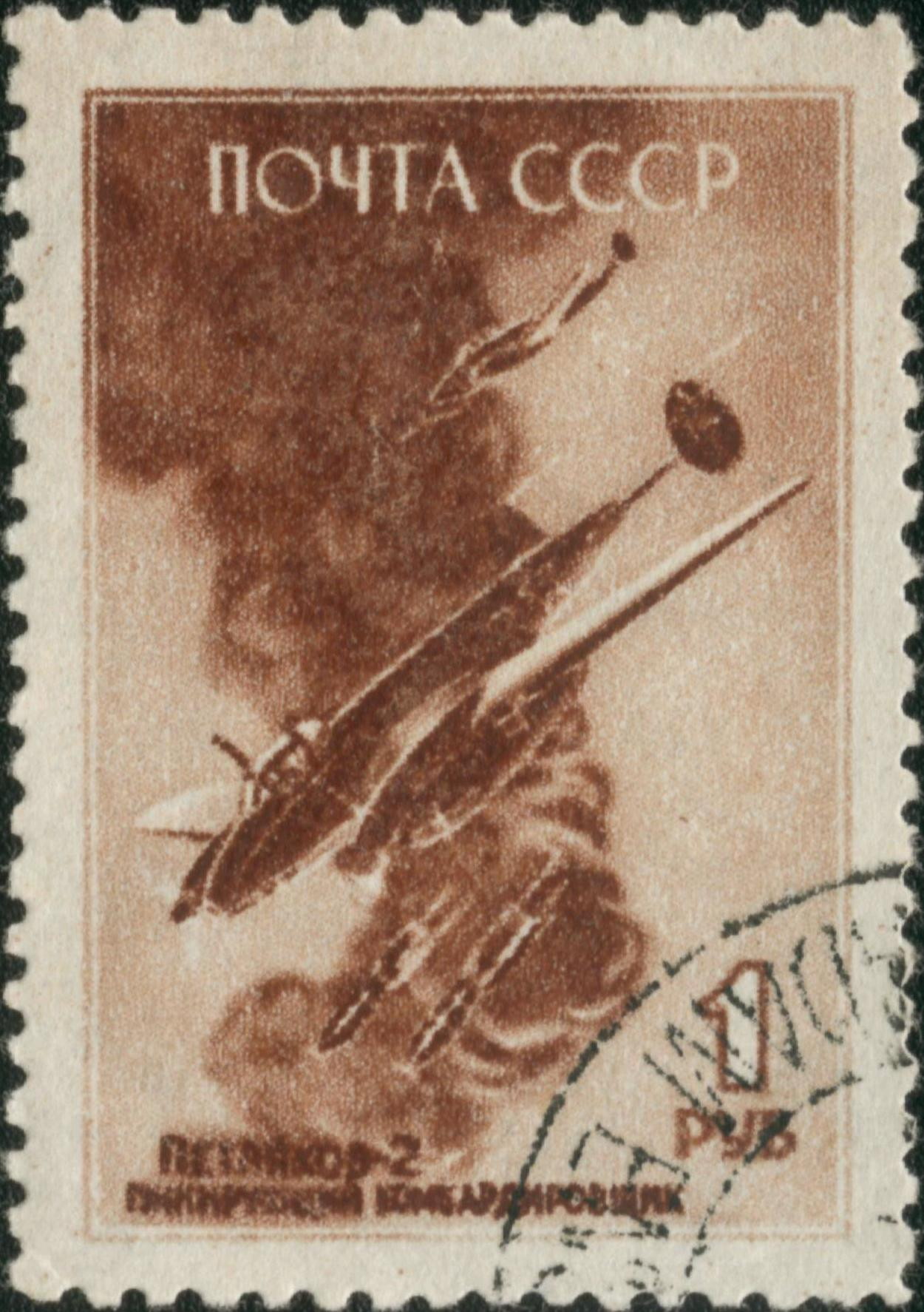 USSR stamp, Petlyakov Pe-2 dive bomber aircraft, 1945, CPA #988, 1 ruble, used.